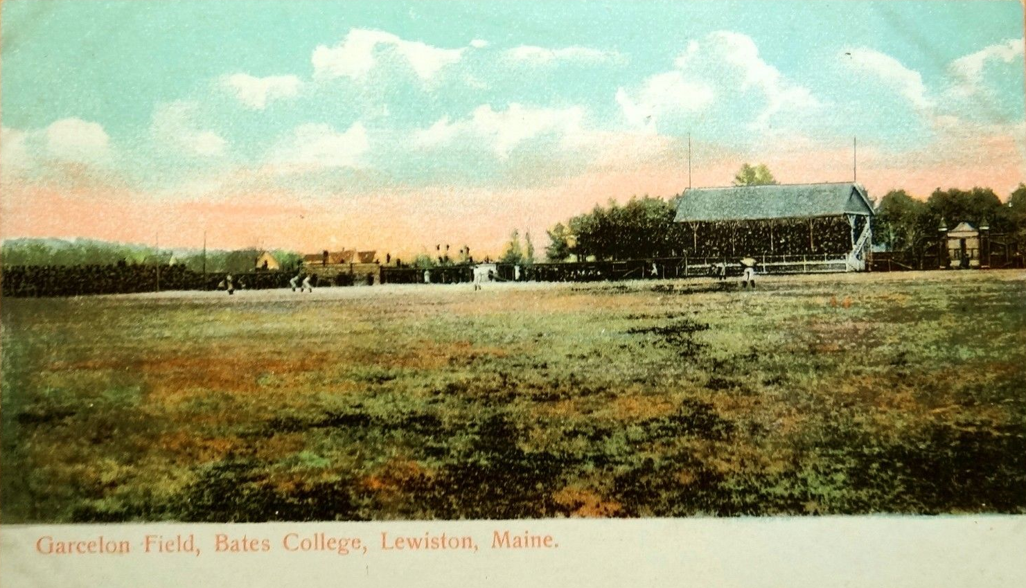 Garcelon field at Bates College in Maine in the early twentieth century